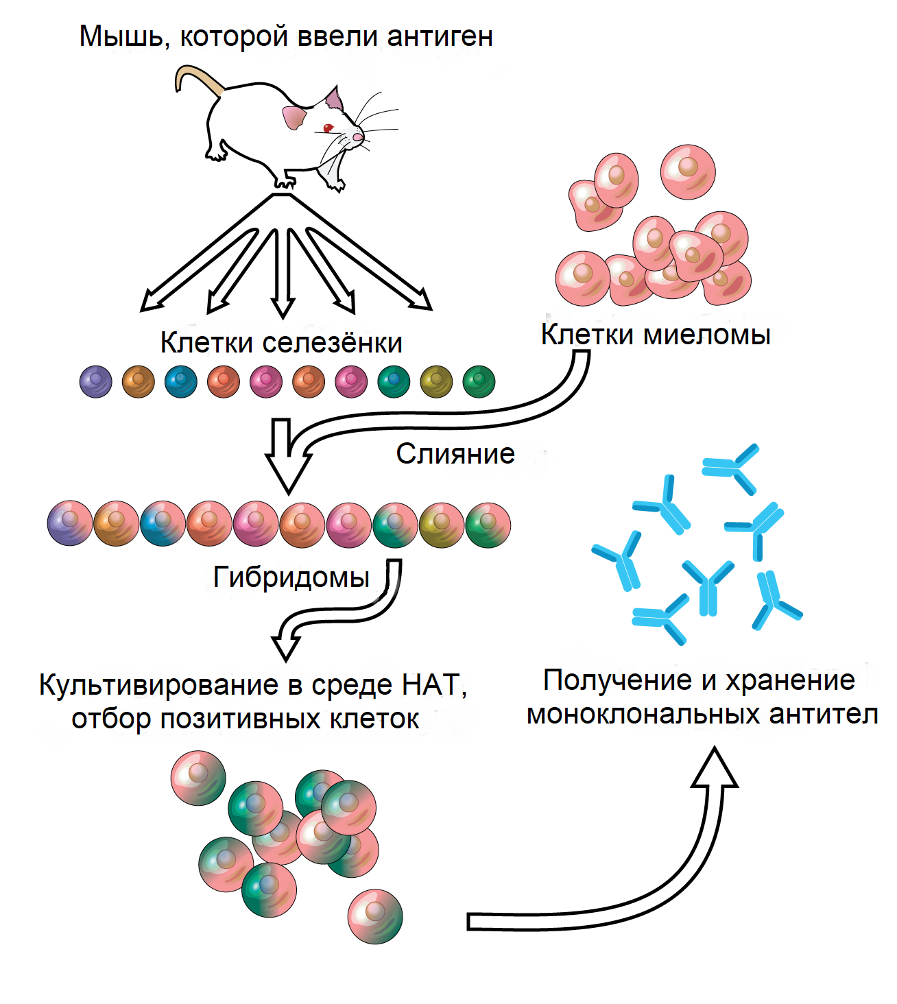 Overview of hybridoma technology and monoclonal antibody creation (in Russian)